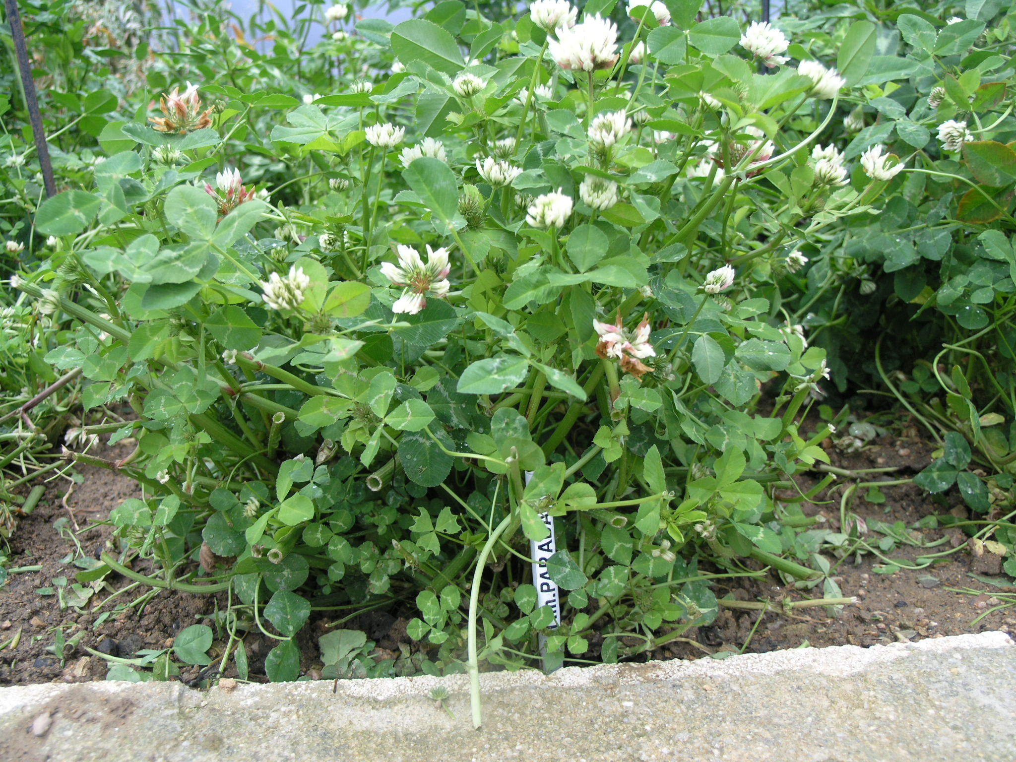 Clover balansa cv. Paradana